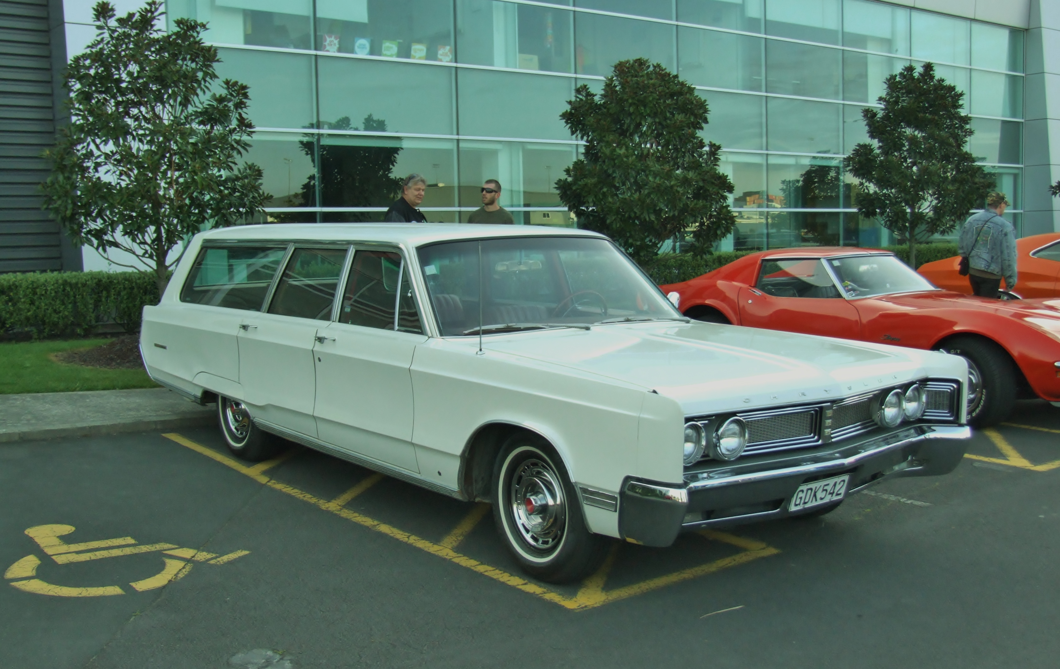 1967 Chrysler Town & Country S/W